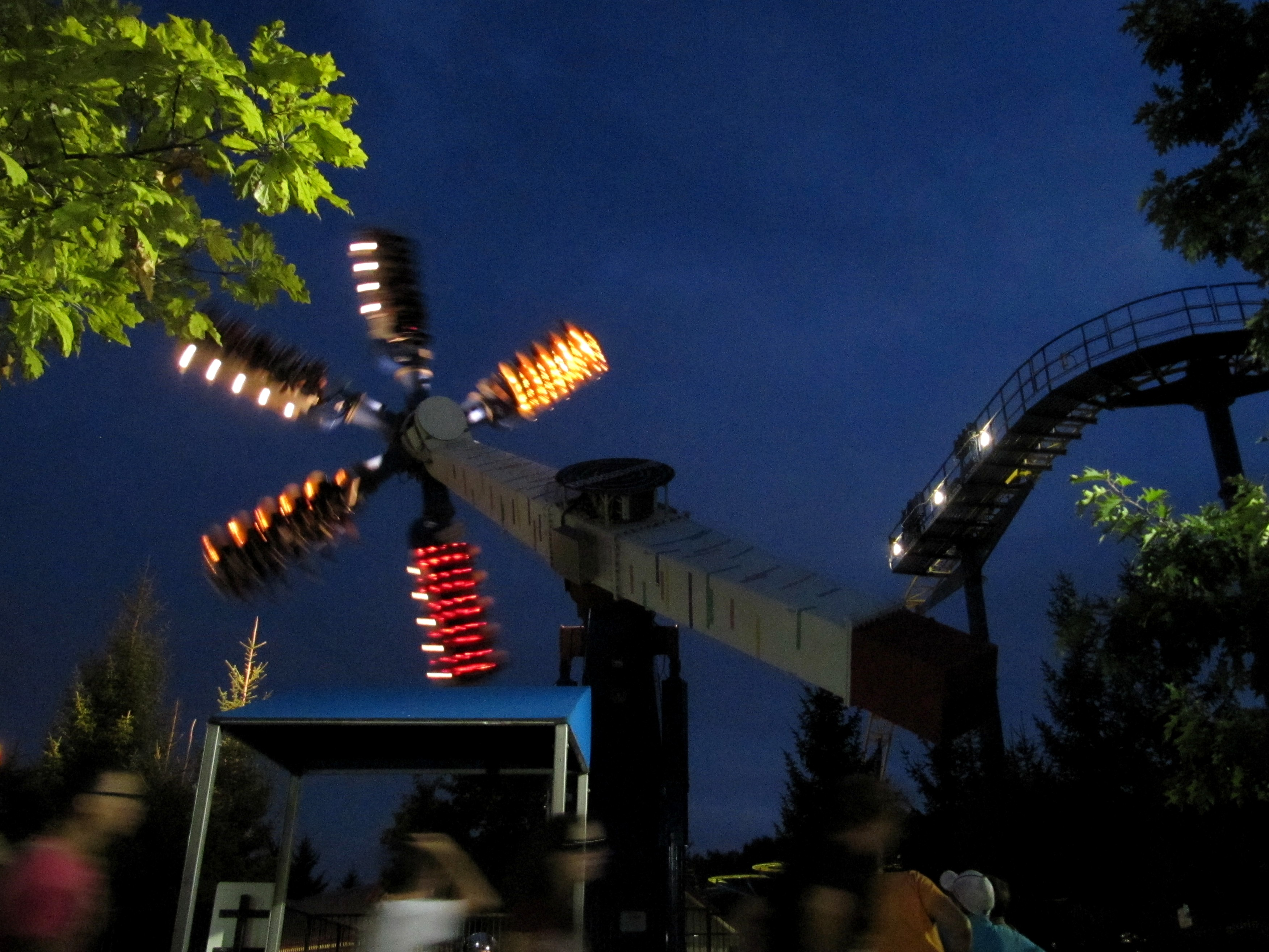 A pretty fun-looking flat ride at Canada's Wonderland. I don't get to ride this one very often because my usual ride companion gets sick just looking at it. Yeah, he's a total wuss.